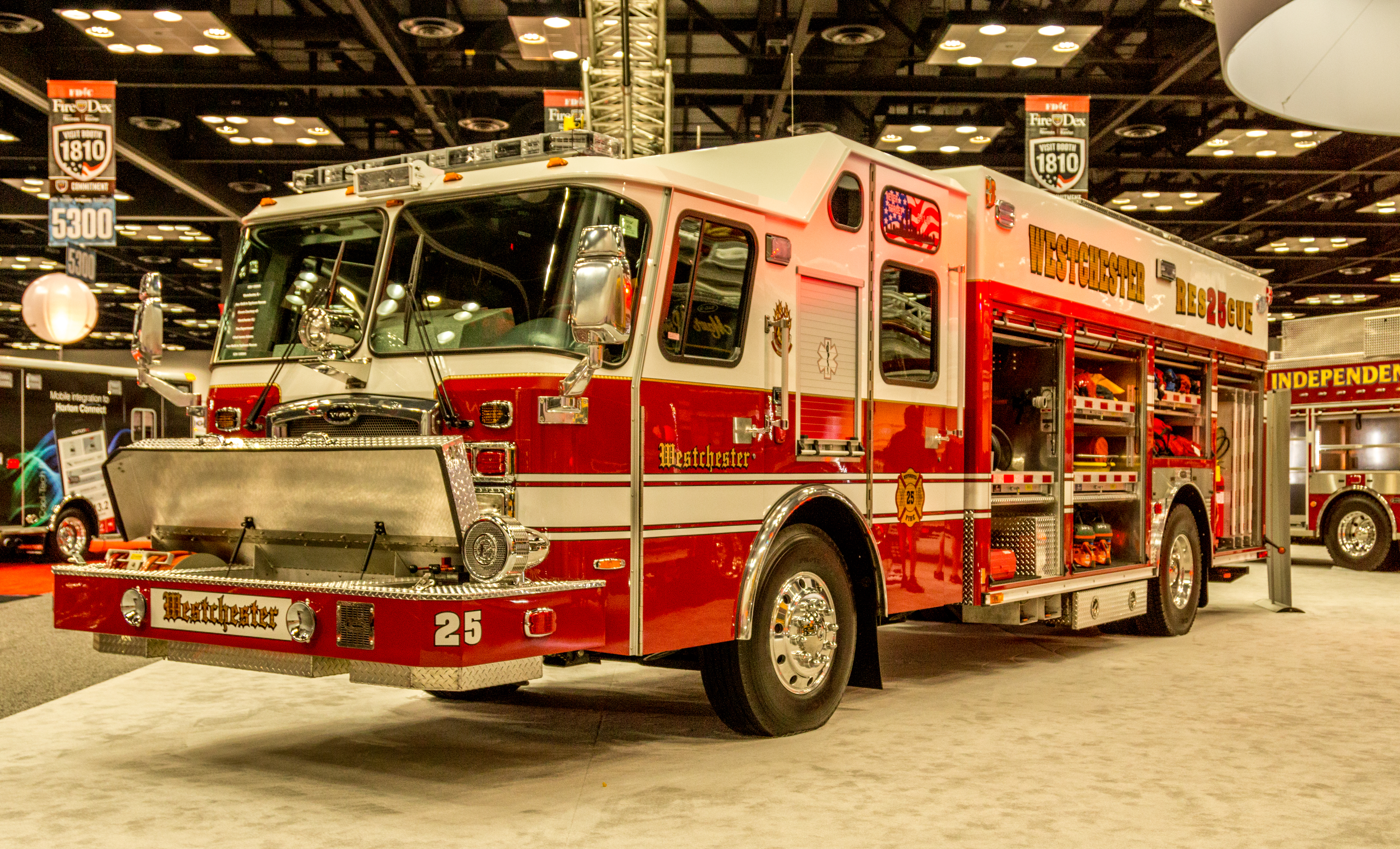 Westchester Fire Department - Westchester Illinois